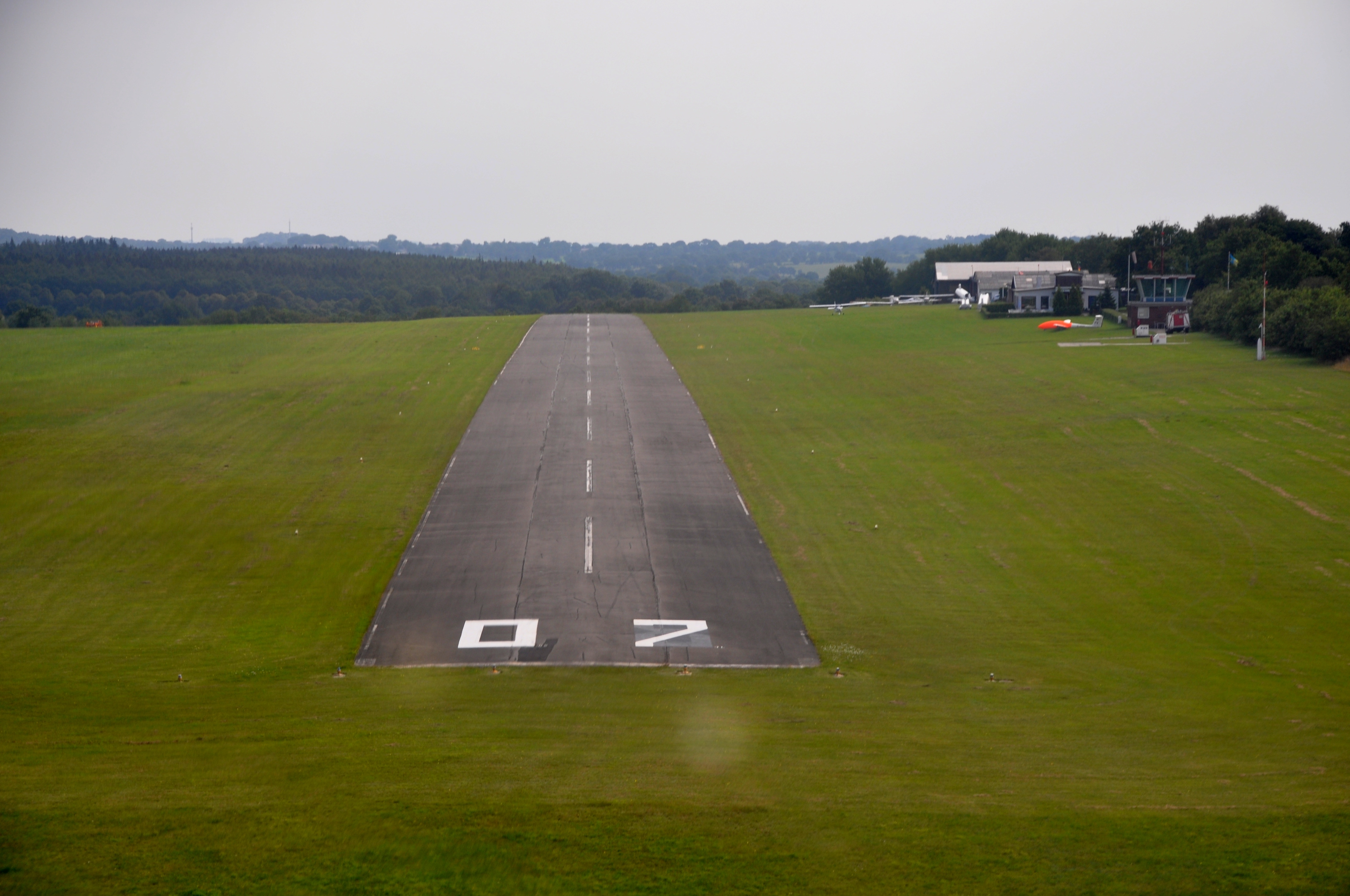 Sankt Michaelisdonn airport: Final runway 07